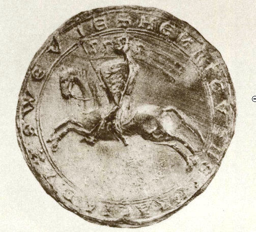 Seal of Henry (VII) of Germany. landesarchiv-bw.de [1]